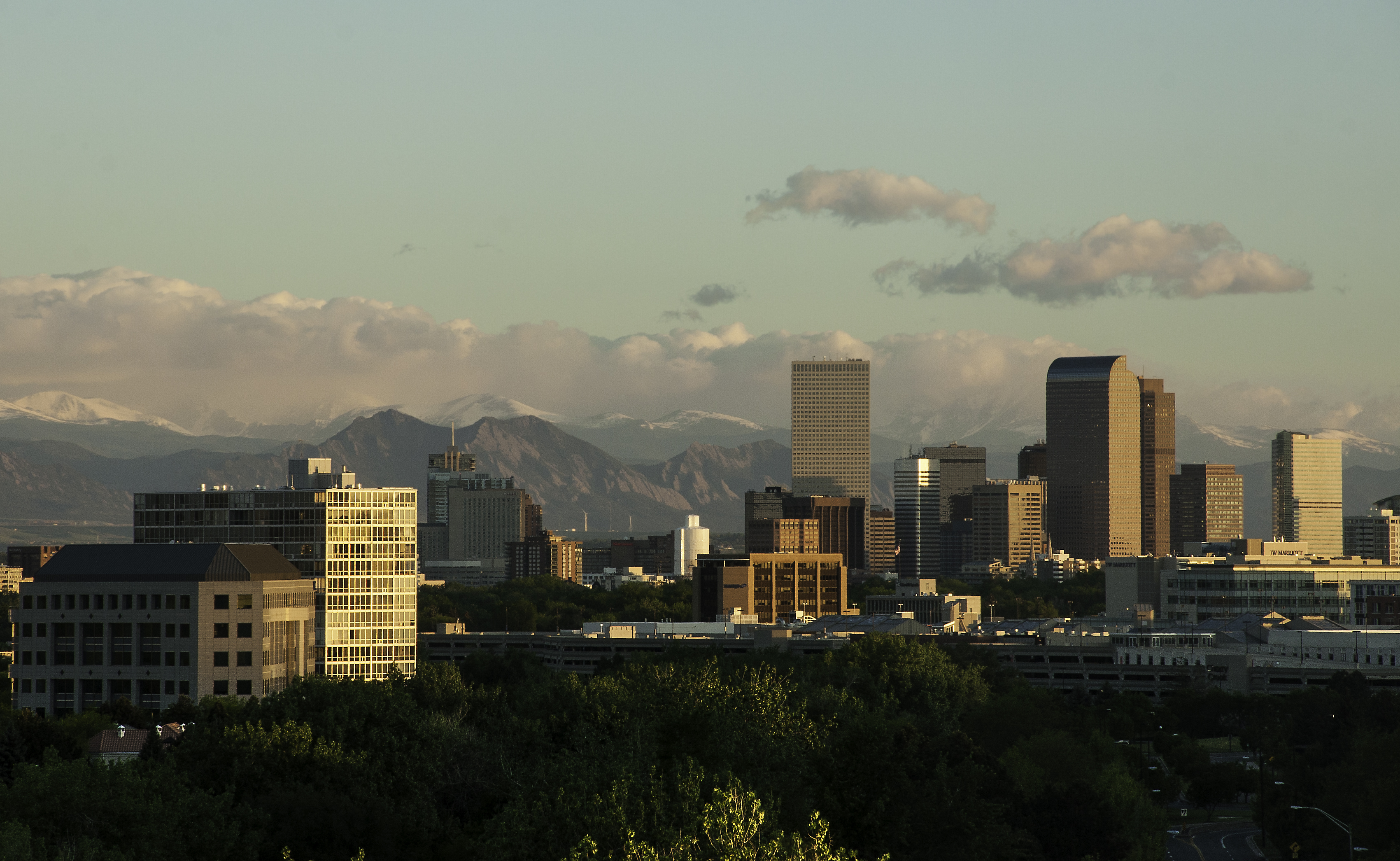 Denver skyline with Rocky Mountains in the background